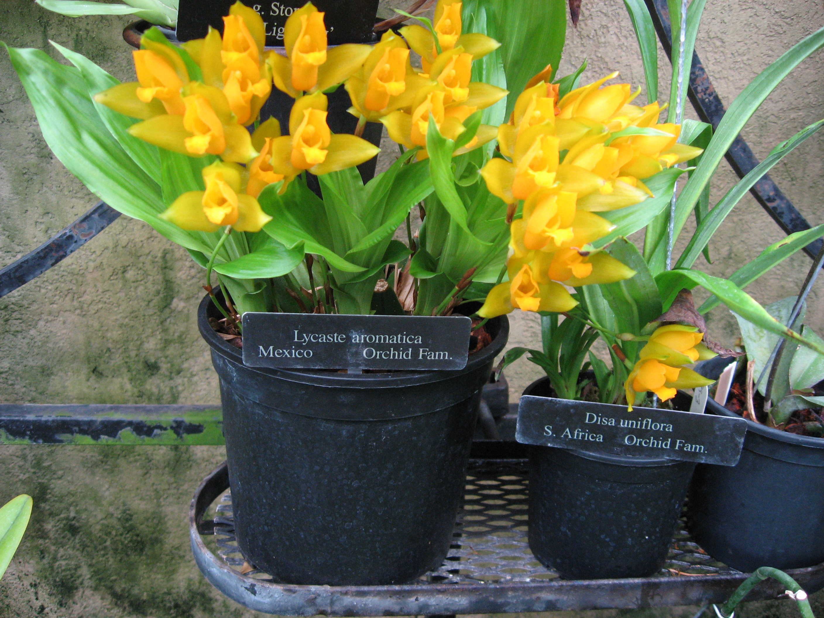 A picture of Lycaste aromatica.